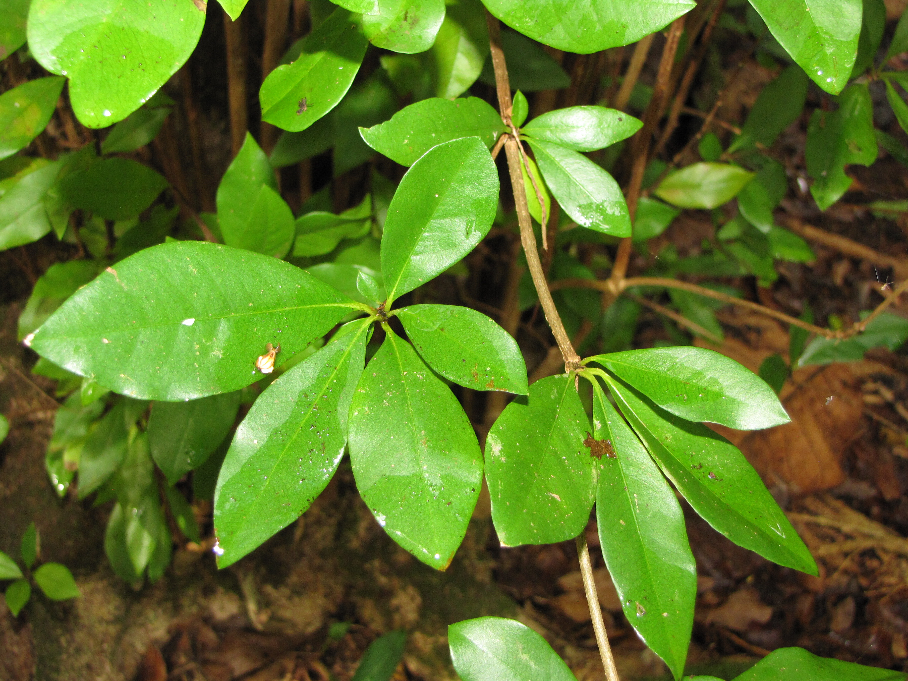 Bucida buceras (Jucaro, geometry tree) leaves at Keanae Arboretum, Maui, Hawaii